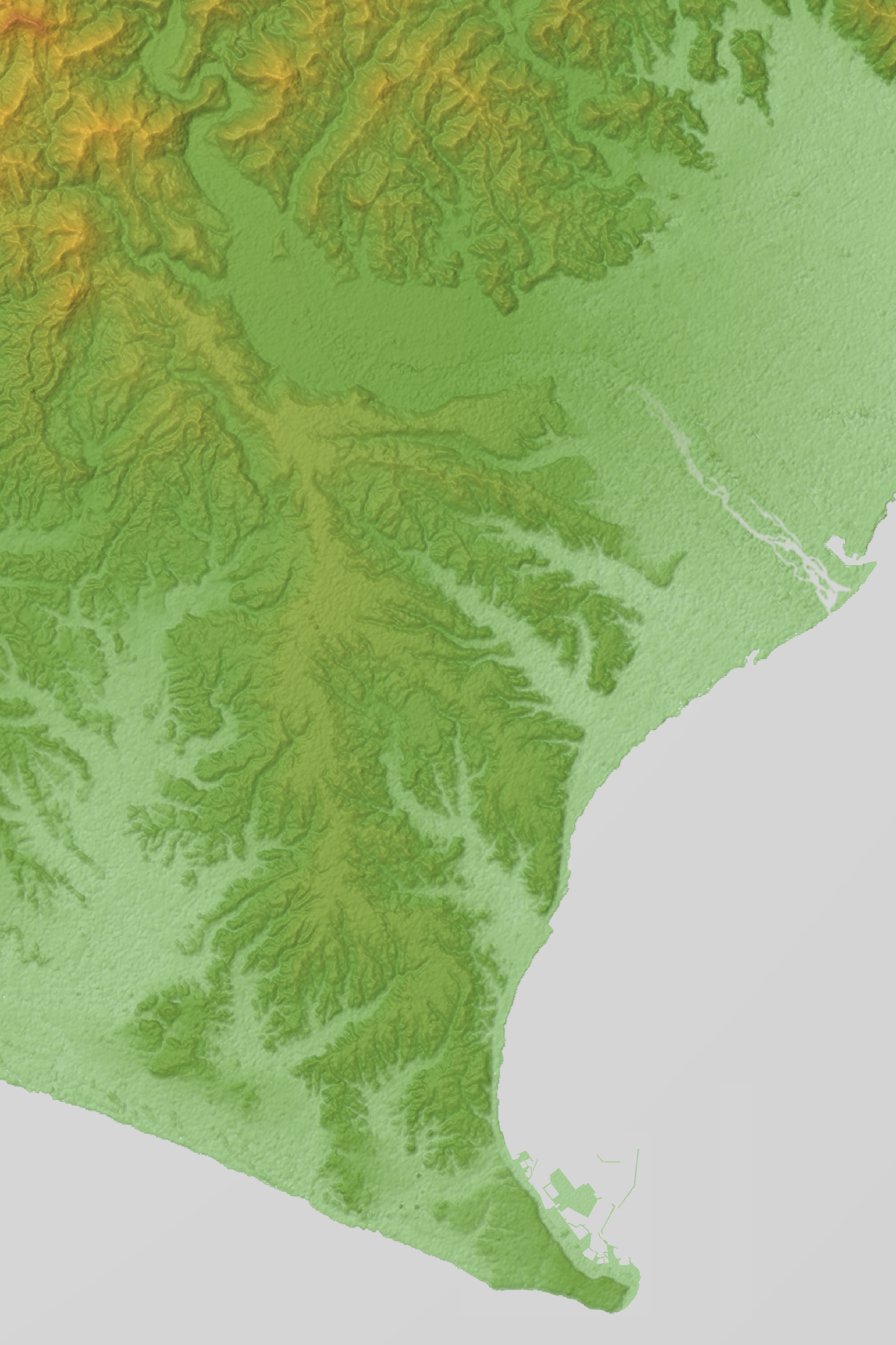 Makinohara plateau in Shizuoka Prefecture, Honshu, Japan.